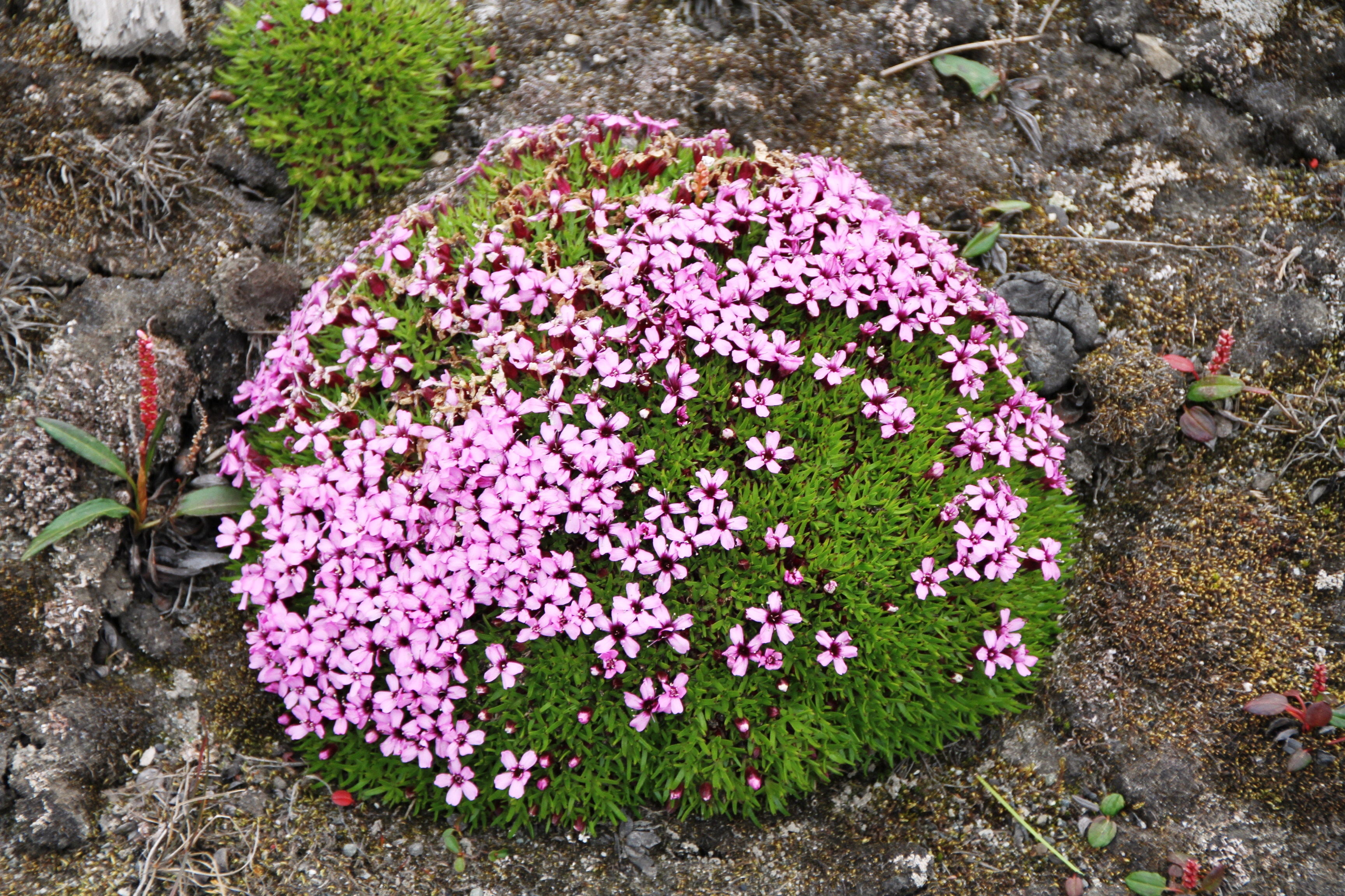 Silene speciemen observed at the island of Spitsbergen, Svalbard.